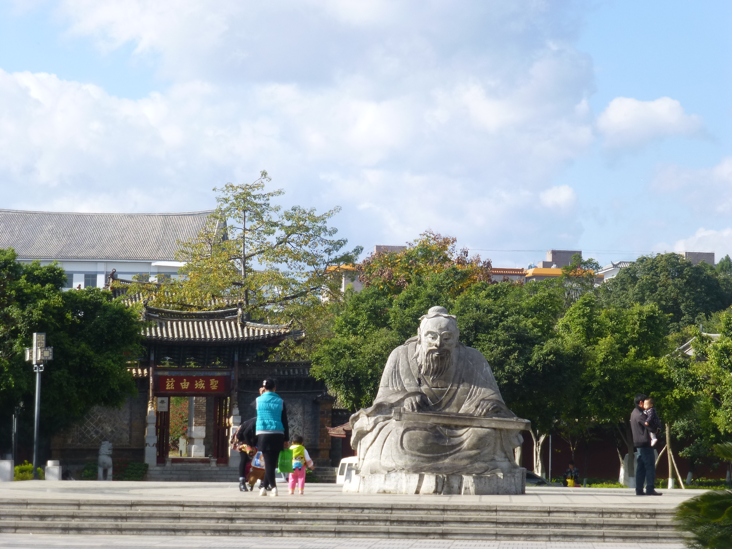 Confucius Culture Square, outside of the east gate of the Confucian Temple in Lin'an, Jianshui County, Yunnan